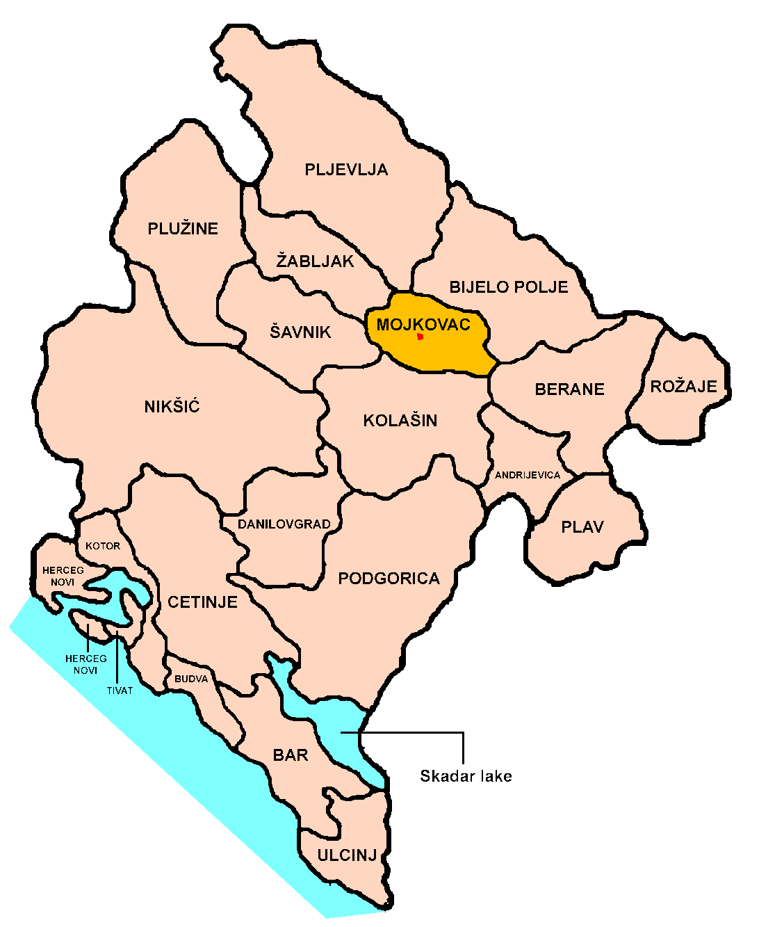 Location of Mojkovac town and municipality within Montenegro